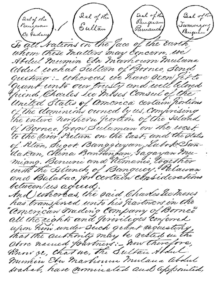 Document (Part 1 of 3), with the grants, the Sultan of Brunei vested to Joseph William Torrey, November 24 1865 TO ALL nations on the face of the earth whom these matters may concern We Abdul Mumin Ebn Marhoum Maulana Abdul Wahab Sultan of Borneo send greeting. Whereas we have seen fit to grant unto our trusty and well-beloved friend Charles Lee Moses Consul of the United States of America certain portions of the dominions owned by us, comprising the entire northern portion of the Island of Borneo from Sulaman on the west to river Pietan on the East and the states of Paitan, Sugot, Banggayan, Labuk, Sandakan, China Bantangan, Gagayan Mumiang, Benuni and Kimanis, together with the islands of Banguey, Palawan and Balabao for certain considerations between us agreed. And whereas the said Charles Lee Moses has transferred unto his partners in the “American Trading Company of Borneo” all the rights and privileges conferred upon him under such grant requesting that the authority may be vested in the above named partners: - Now therefore know ye, that we, the Sultan Abdul Mumin Mumin Ebn Marhoum Maulana Abdul Wahabhave nominated and appointed